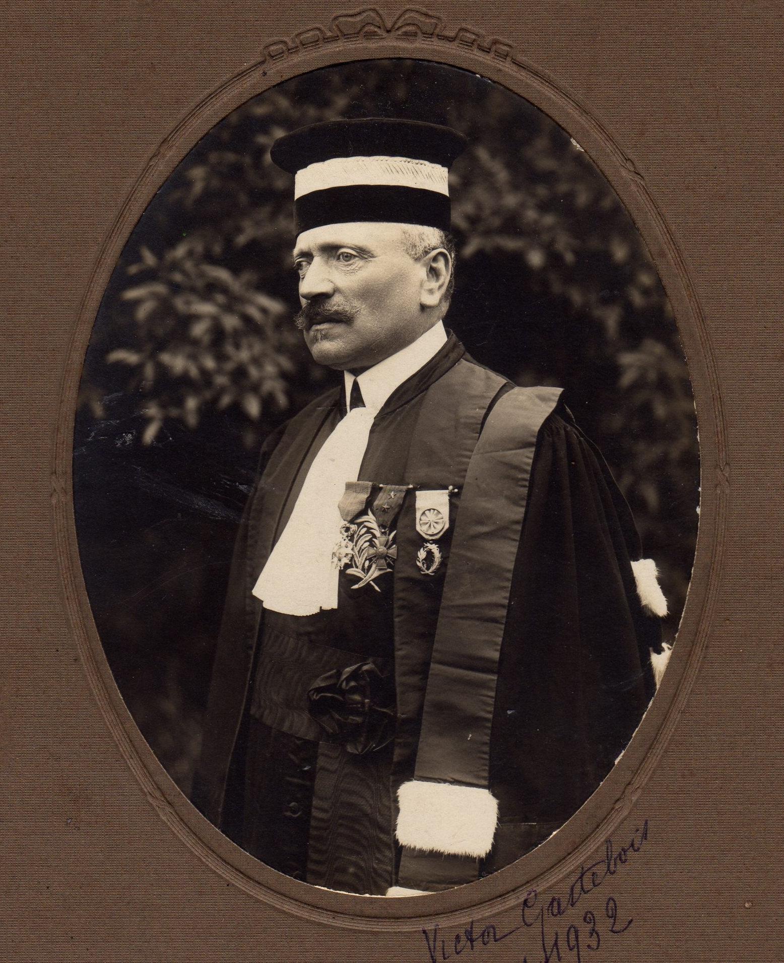 Victor Gastebois